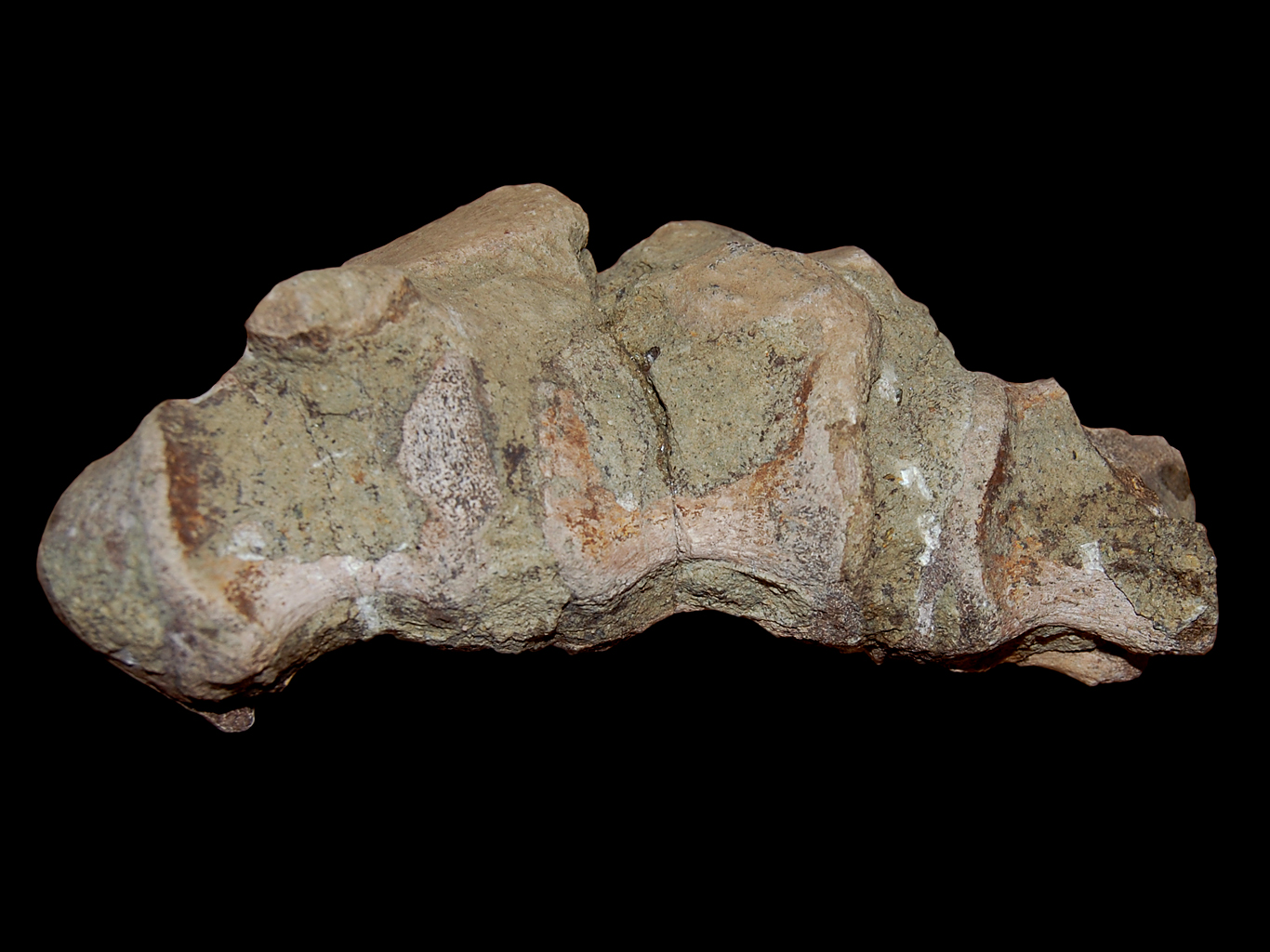 Sacrum of Struthiosaurus, Deva Natural History Museum.